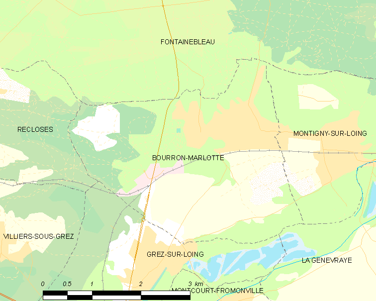 Map of French municipality Bourron-Marlotte